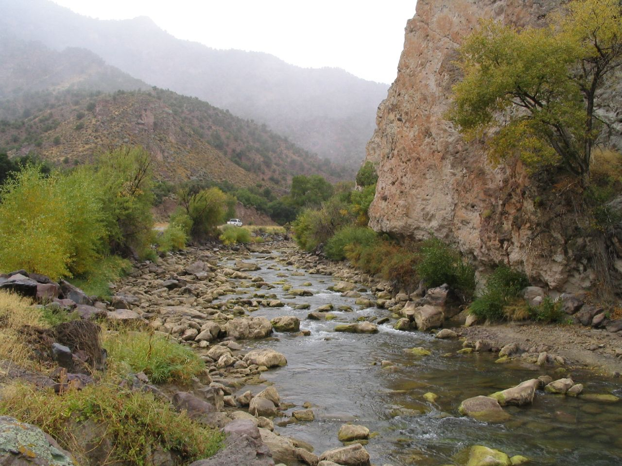 "Sevier River, U.S. Route 89 Between Richfield and Marysvale, Utah"